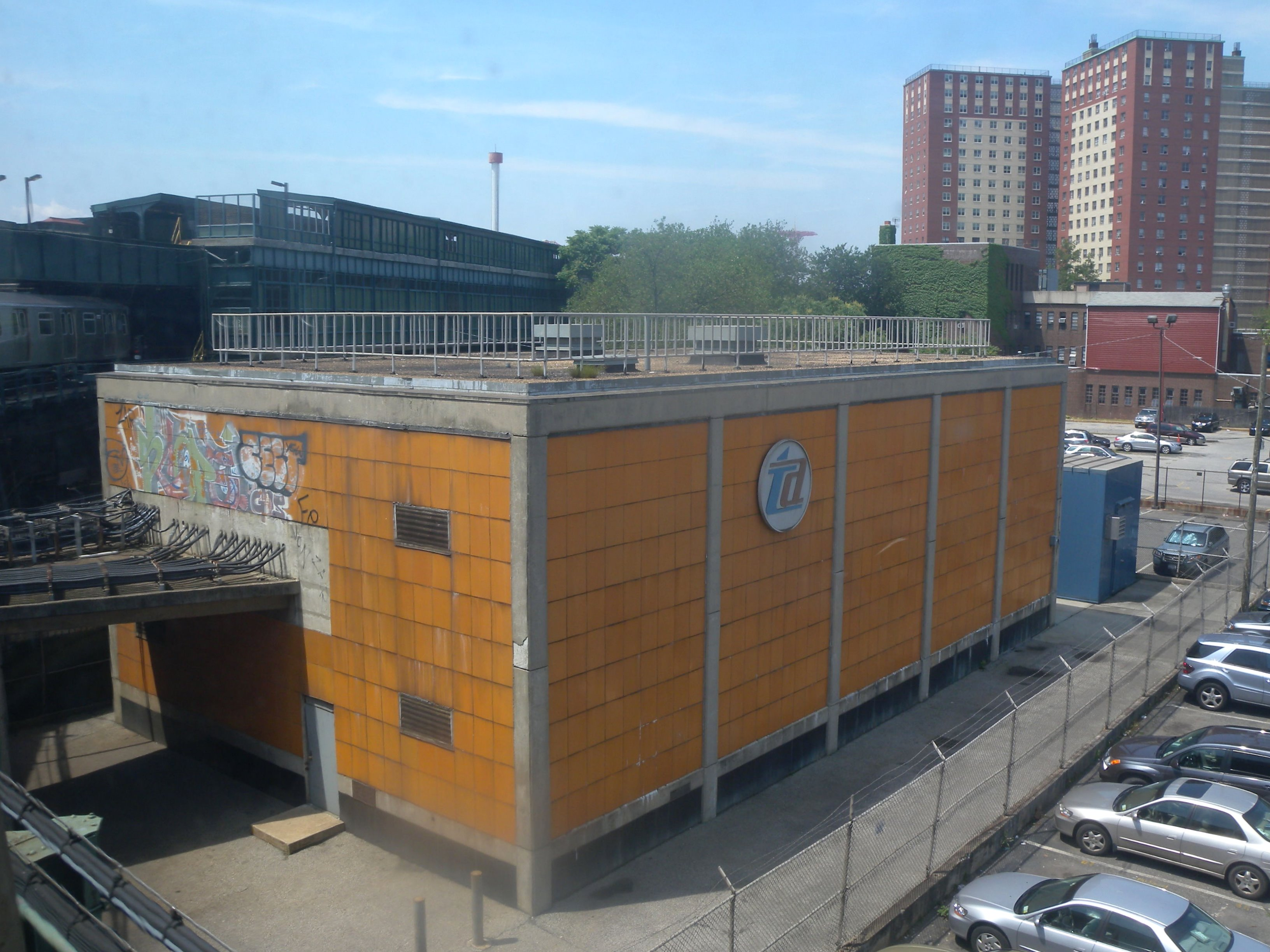 Looking southwest at powerhouse from southbound F train on a sunny midday.